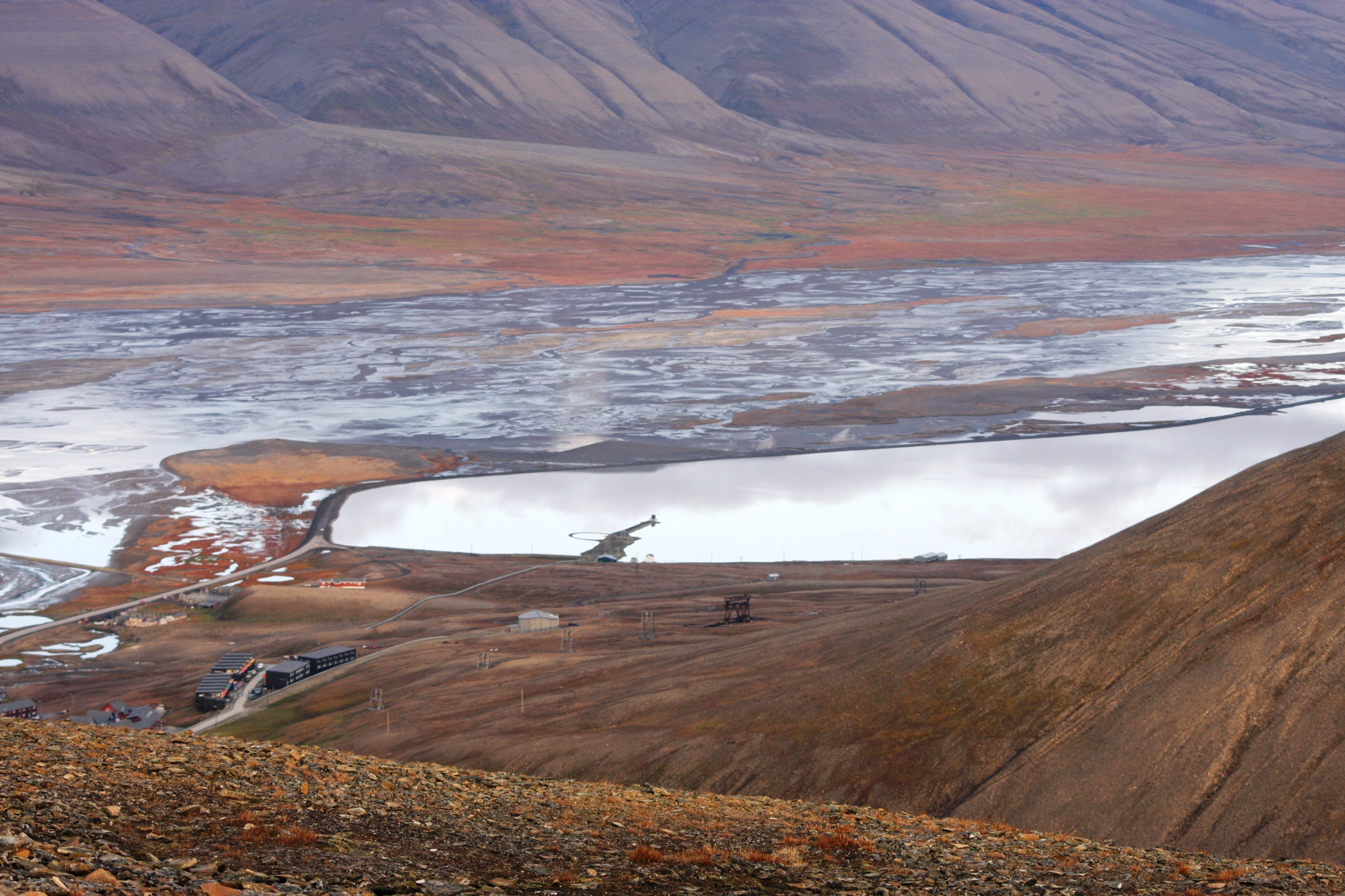 Isdammen in Adventdalen, by Longyearbyen, Spitsbergen